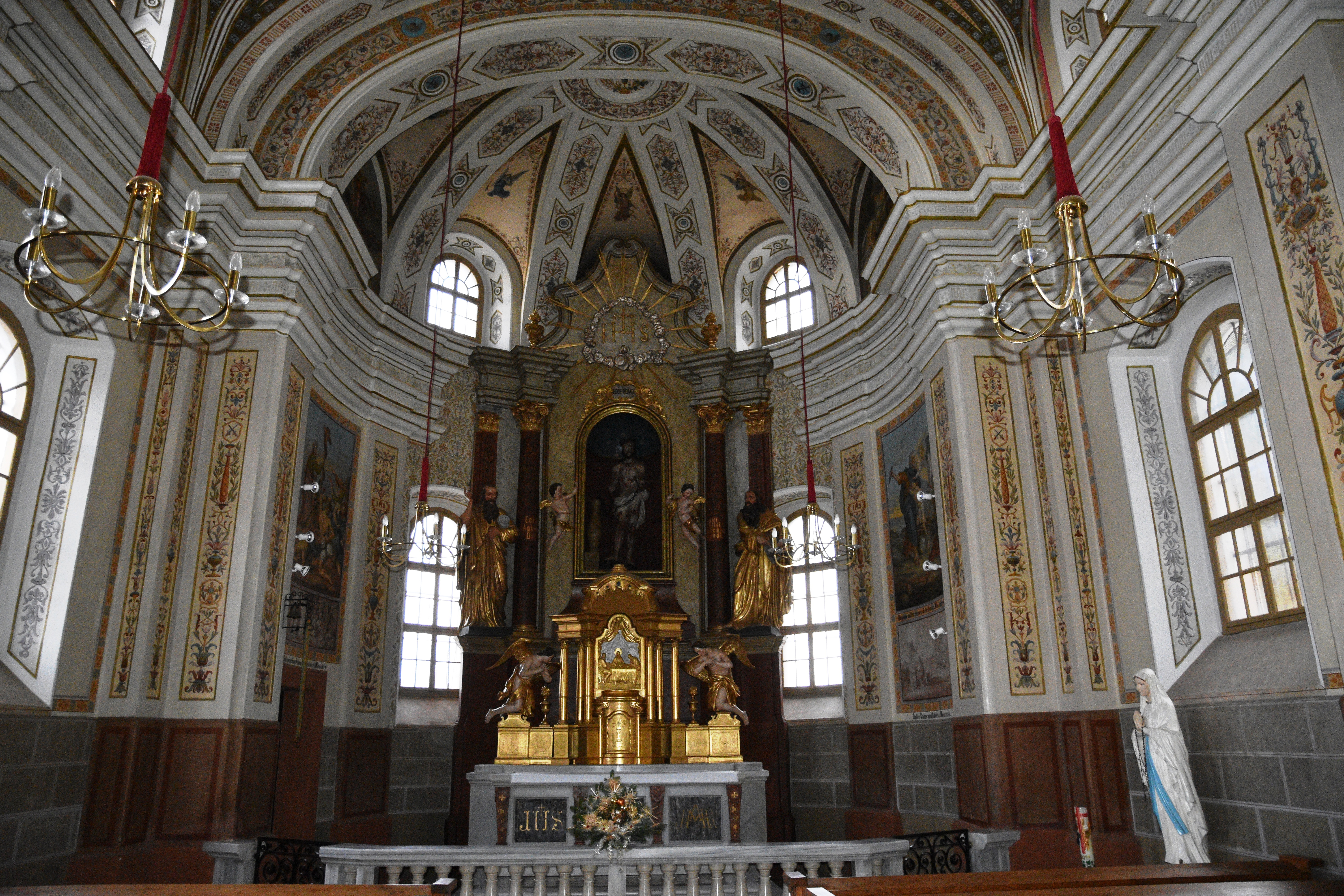 Church Kalvarienbergkirche Breitegg Interior